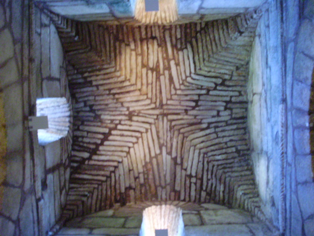 Visigothic church, Galicia, Spain, VII century